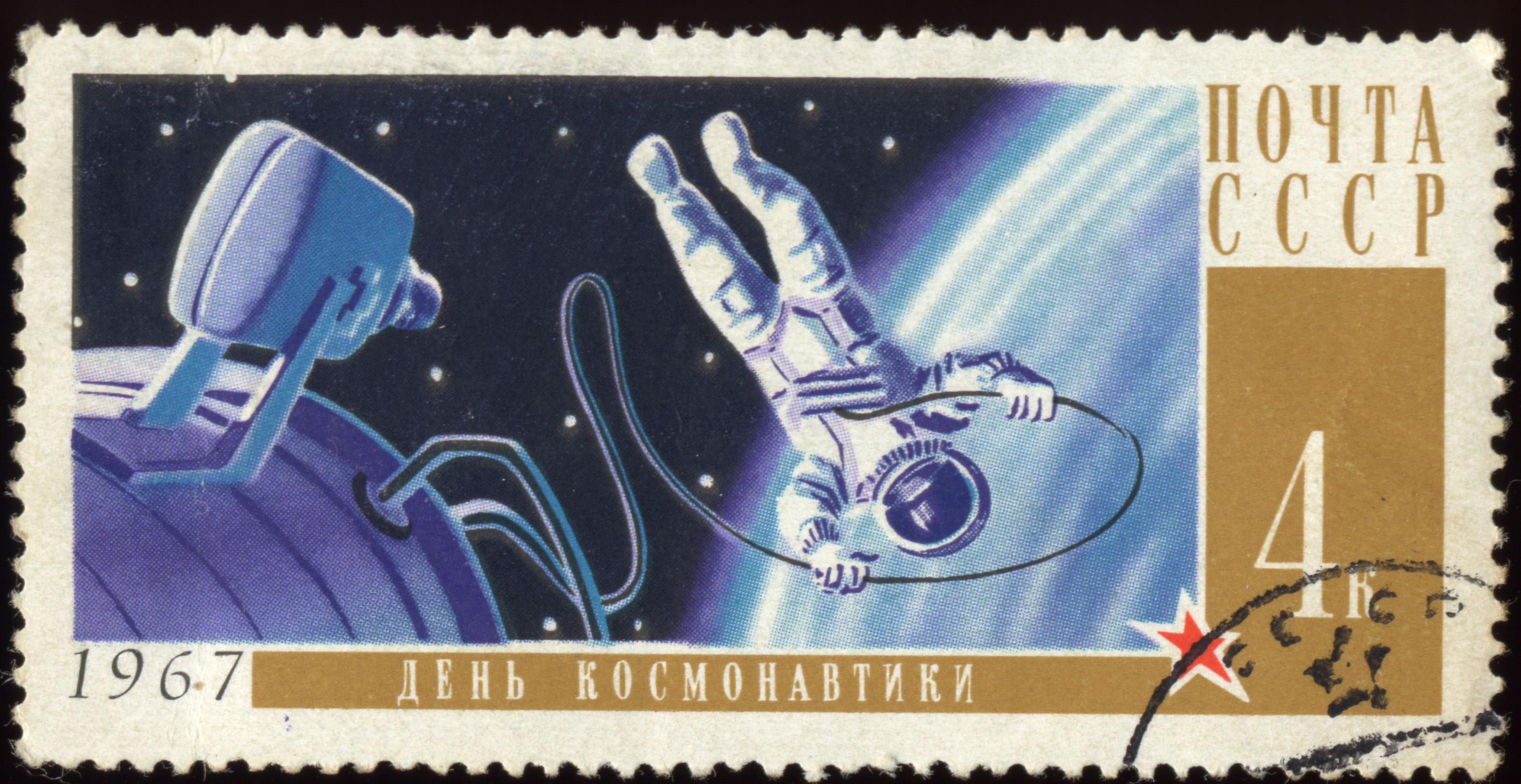 1967 Soviet Union 4 kopeks stamp. Cosmonautics Day. Aleksei Leonov takes a spacewalk.